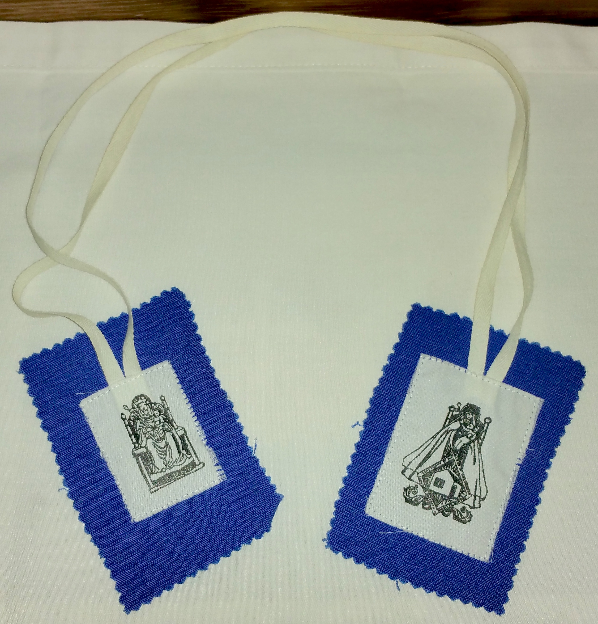 The image is of the Scapular of Our Lady of Walsingham. I clicked this picture on June 06, 2015.